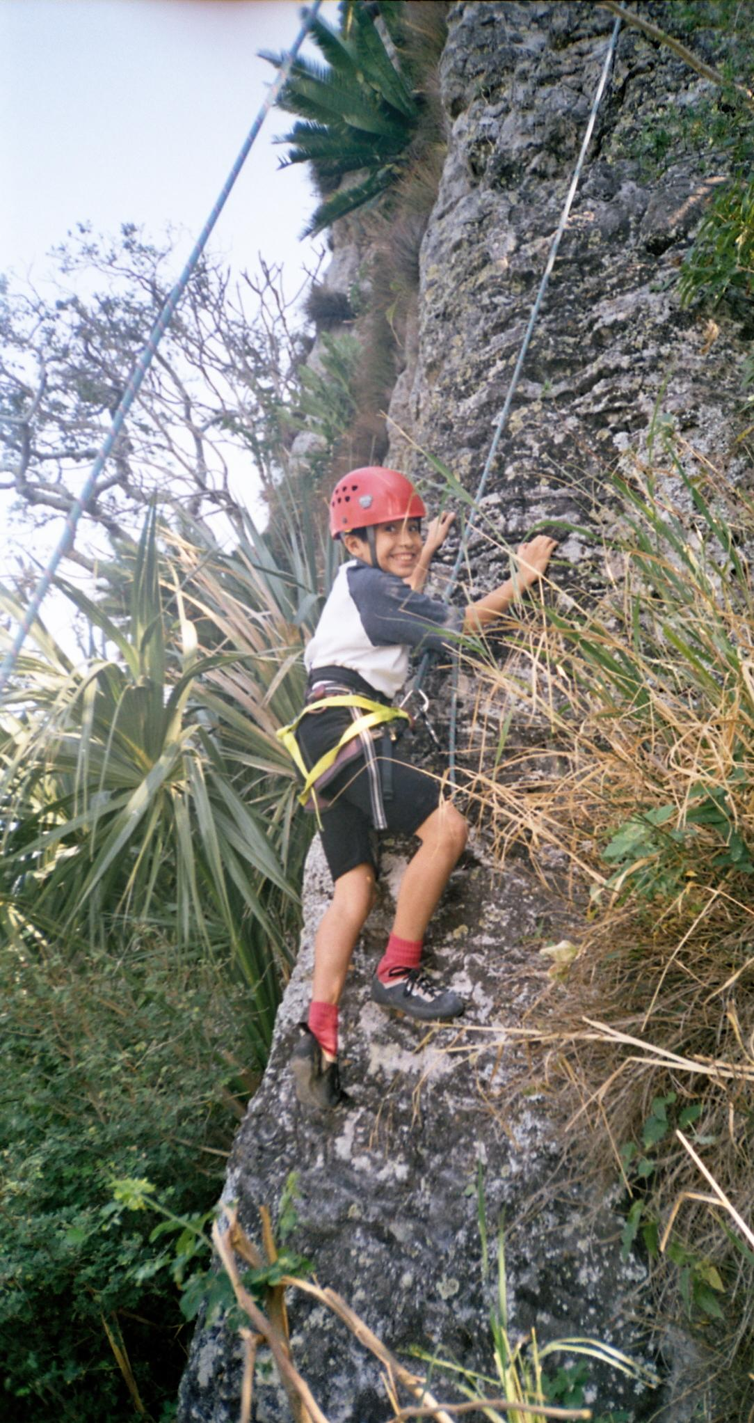 Rock climbing by a boy of 11 years. Metates mount, Actopan, Veracruz, Mexico Picture taken in december of 2005 by me. Climbing part of official excursion of CEMAC Veracruz.